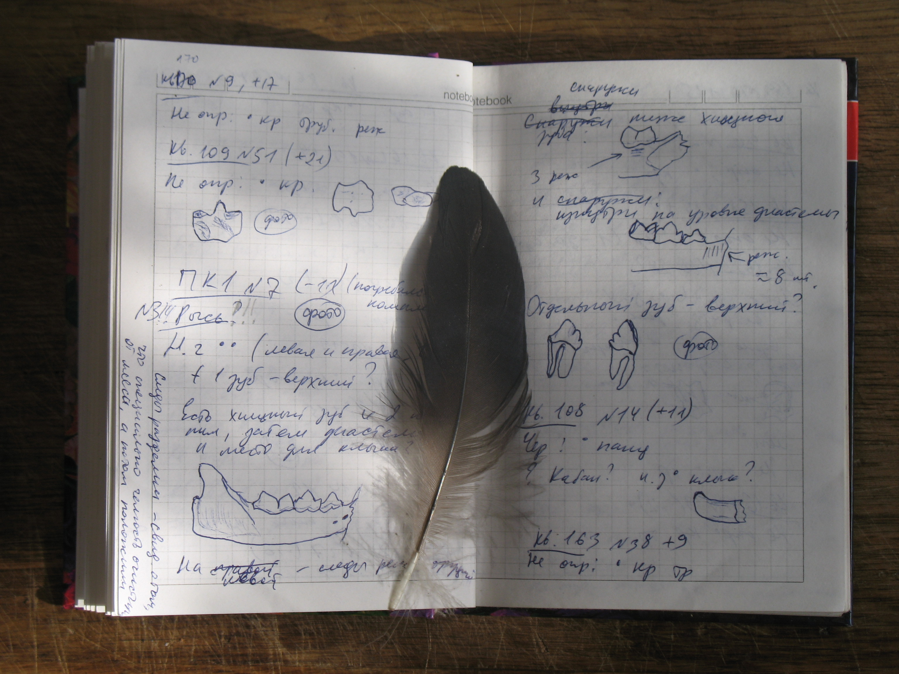 In the photo - Field diary of zoologist E.Yu.Yanish during the study of Neolithic settlement. Bookmark - raven's feather from nest near the excavation. The figure - jaw lynx, found in the burial. Knife marks on the bones to help reconstruct the burial rite of ancient people.